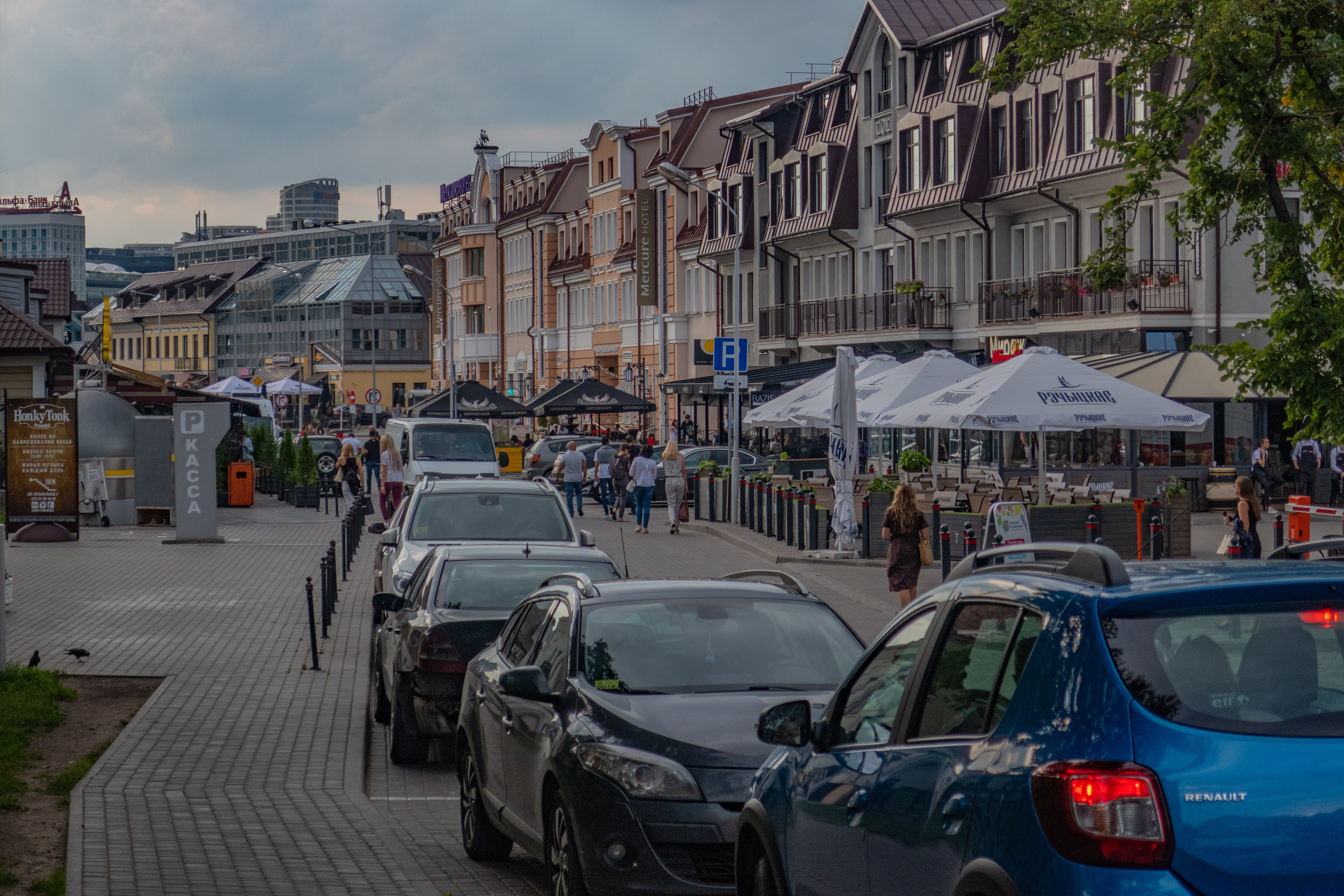 Zybickaja street. Minsk, Belarus